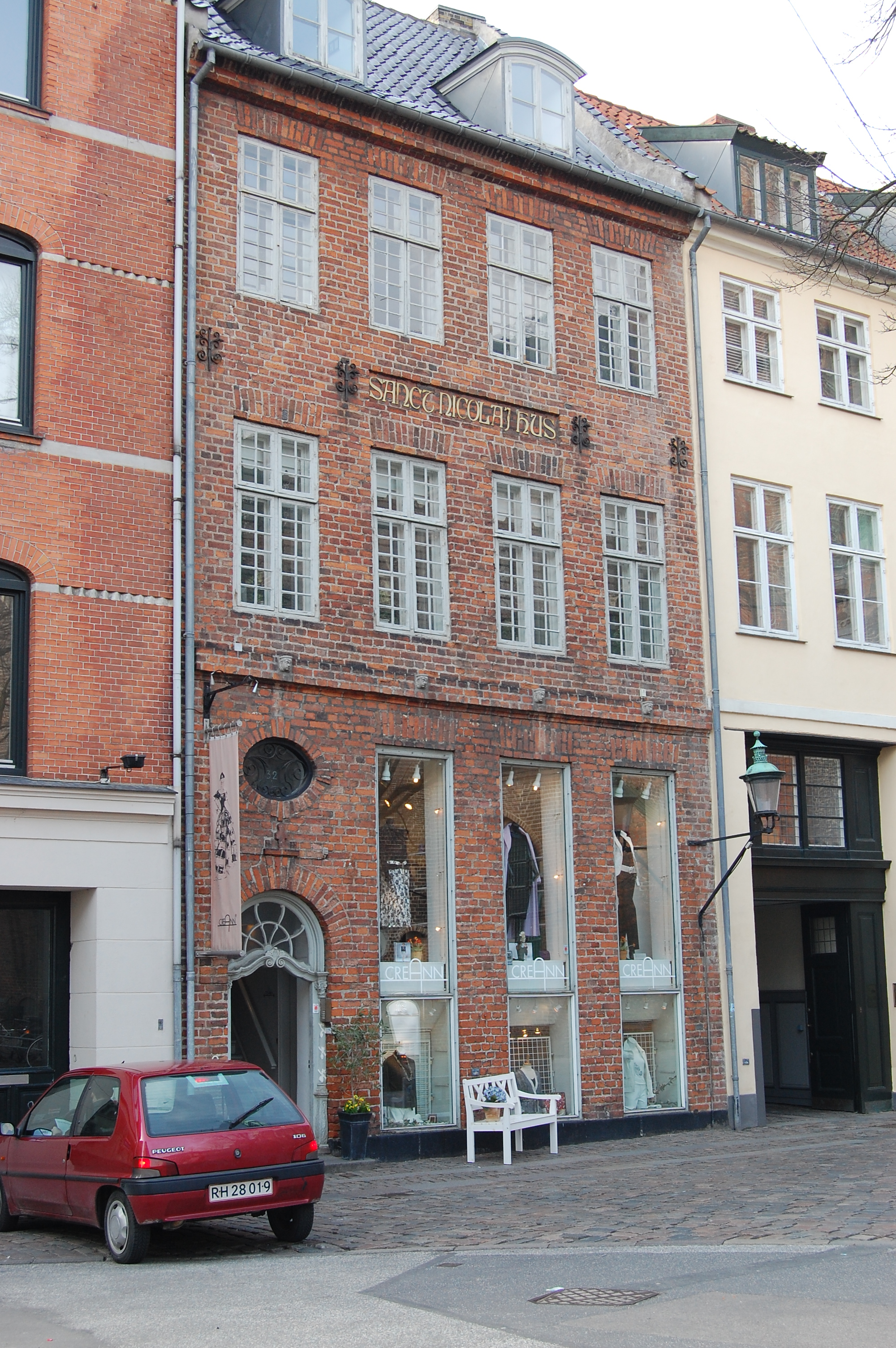 The listed property Sankt Nicolai Hus at 32 Nikolaj Plads in Copenhagen, Denmark. Source here